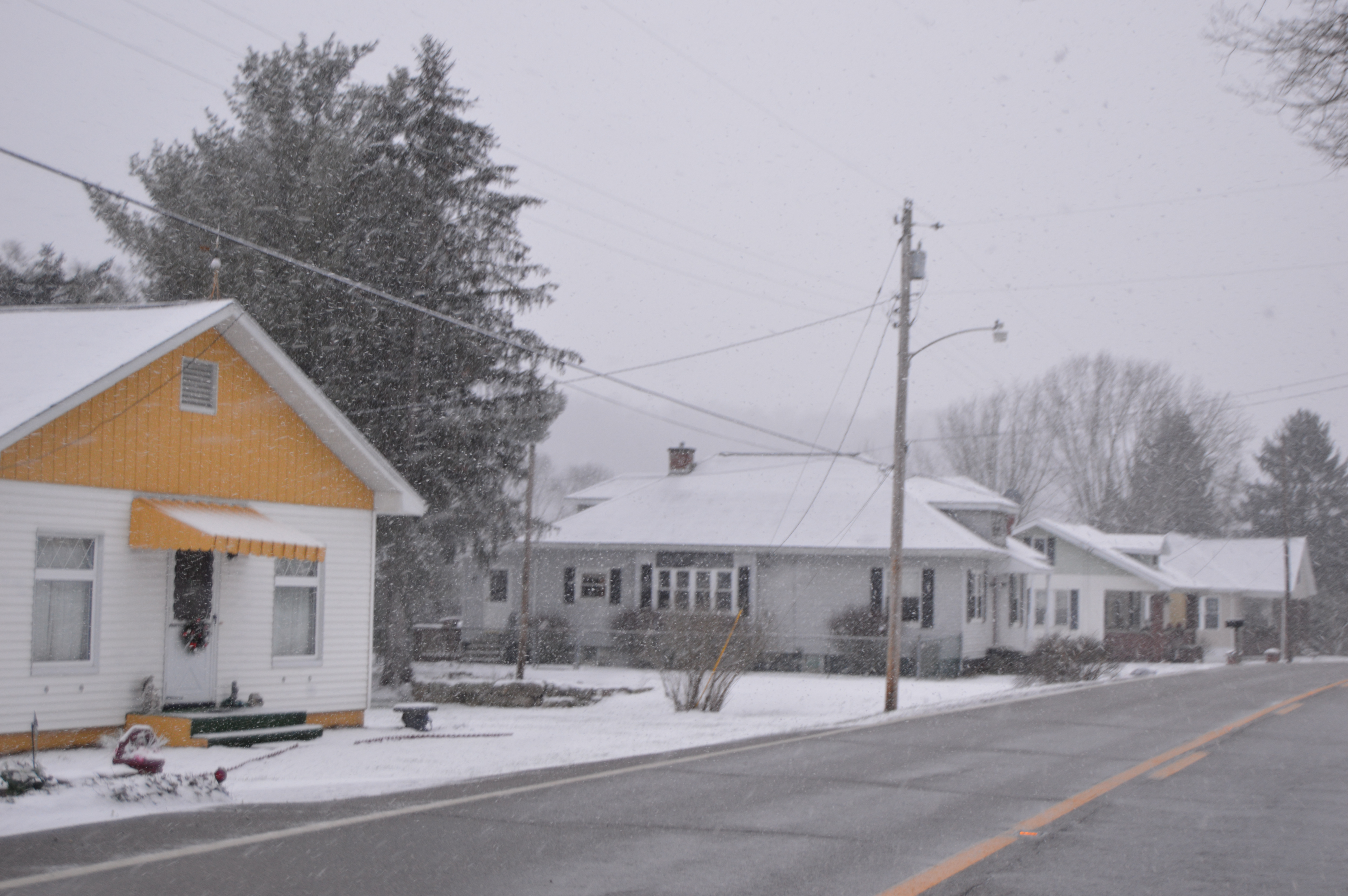 Houses on the southern side of State Route 821 in Whipple, Ohio, United States.